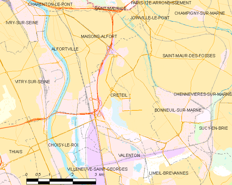 Map of French municipality Créteil